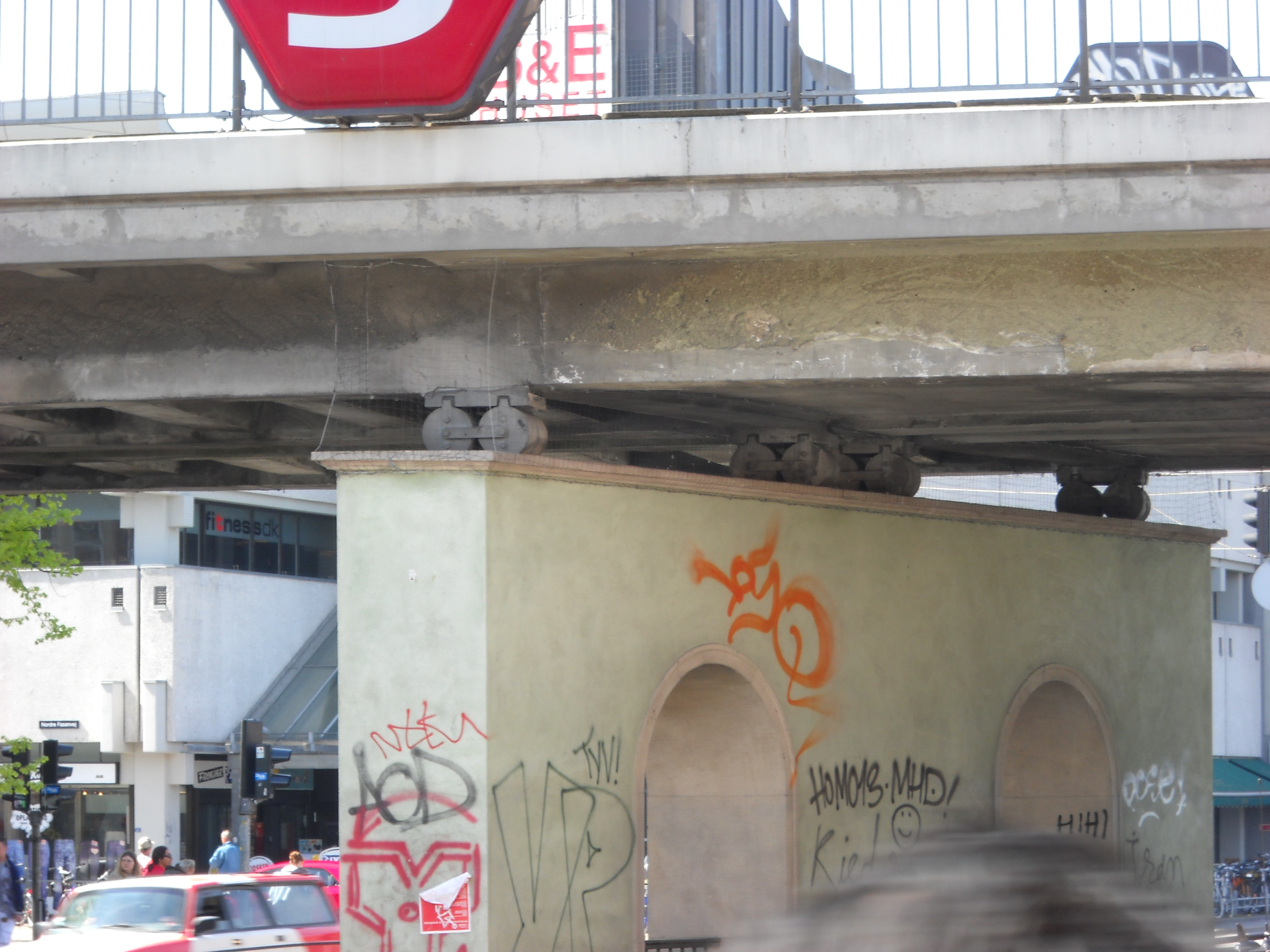 Central support (roller support) of railway bridge at Nørrebro Station, Copenhagen, Denmark Unknown